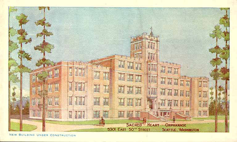 Caption on image: New building under construction. Sacred Heart Orphanage, 5301 East 50th Street, Seattle, Washington Filed in: Seattle--Shelters Subjects (LCTGM): Orphanages--Washington (State)--Seattle; Postcards Subjects (LCSH): Sacred Heart Orphanage (Seattle, Wash.) East 50th St is now Northeast 50th Street, this is now the Villa Academy, in the Laurelhurst neighborhood.